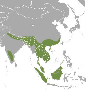 Oriental Small-clawed Otter (Aonyx cinerea) range